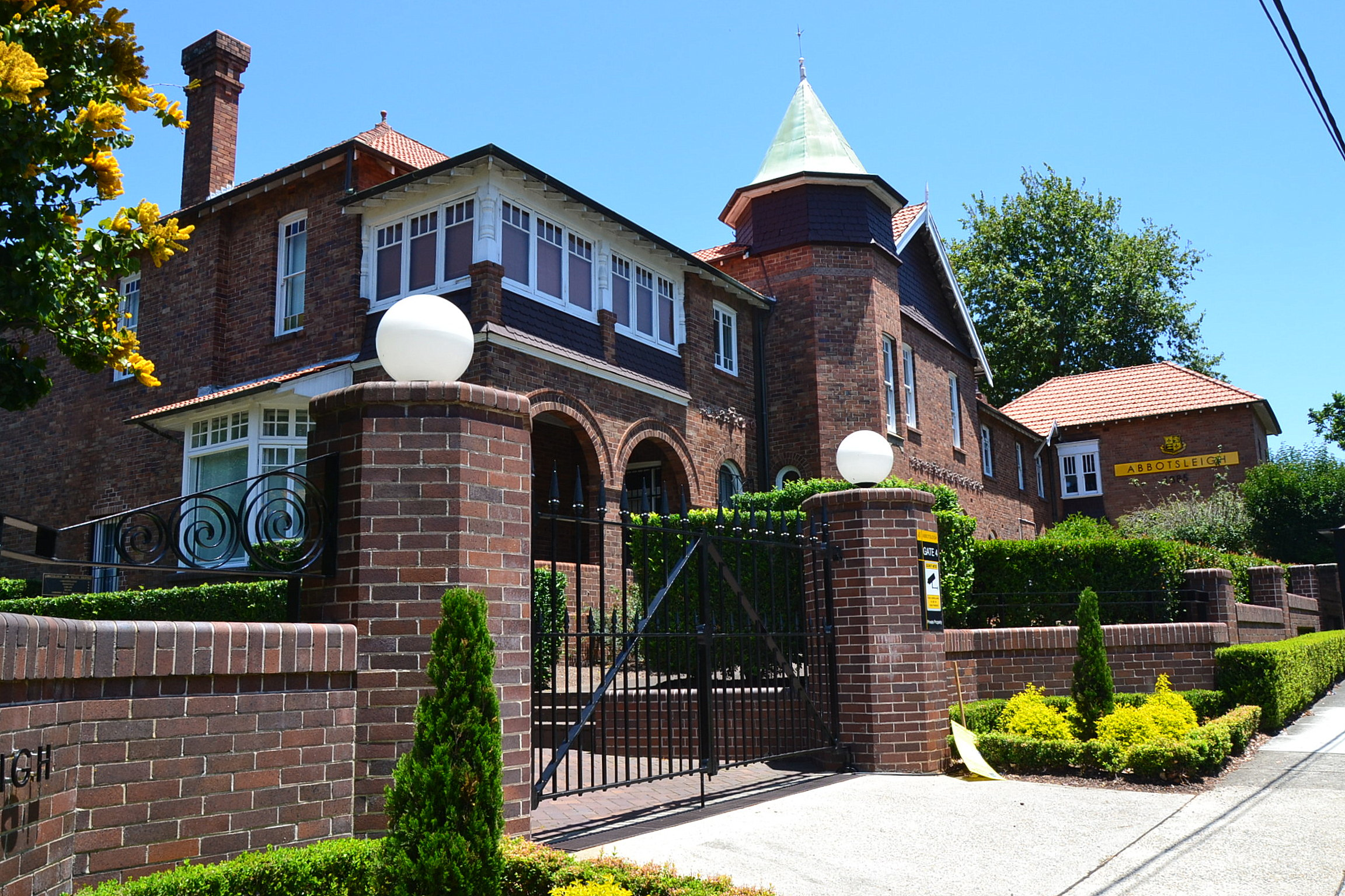 Marian Clarke Building, Abbotsleigh School, Sydney